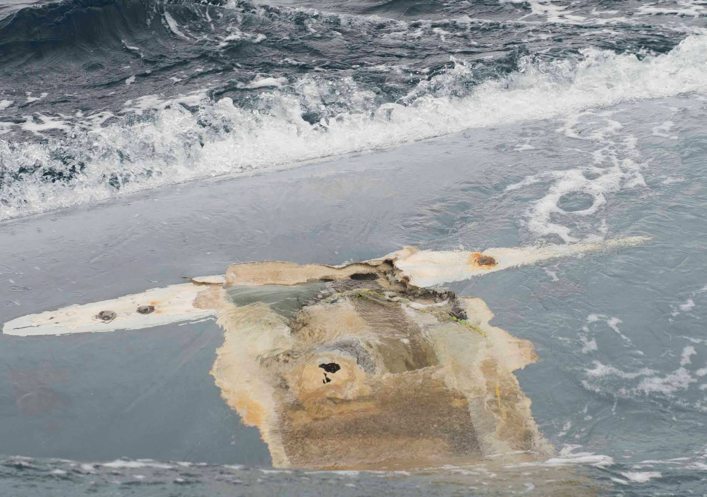 Close view of the part of Cheeki Rafikis upturned hull where the keel used to be.